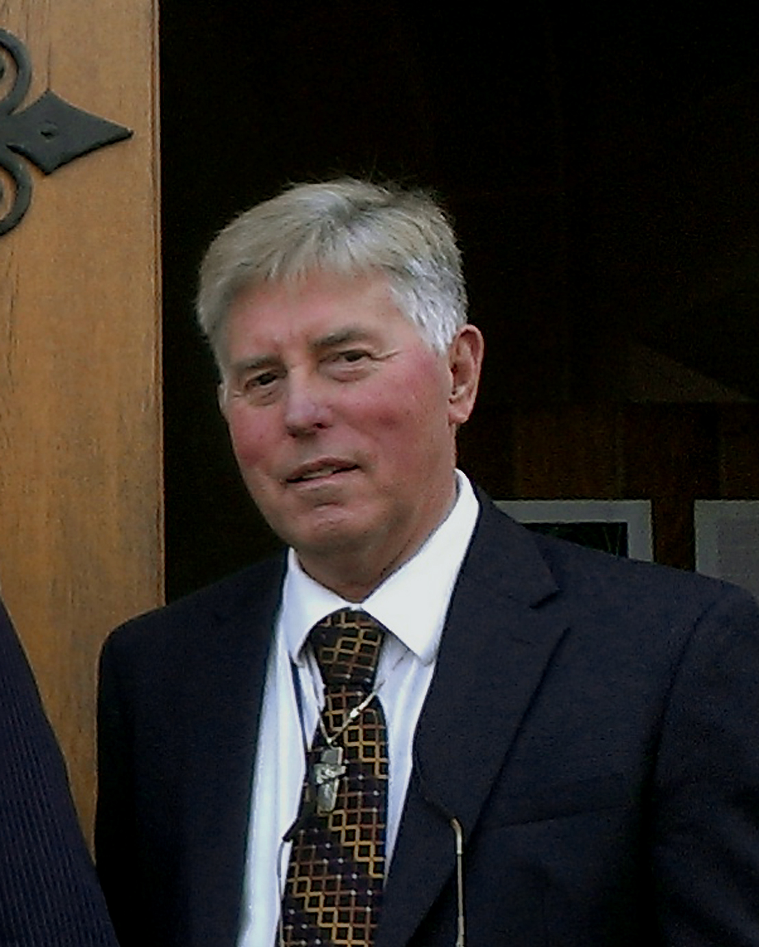 David P. Dahl, american professor, composer and organist. Outside St. Mark Cathedral, Seattle. 25 January 2015.